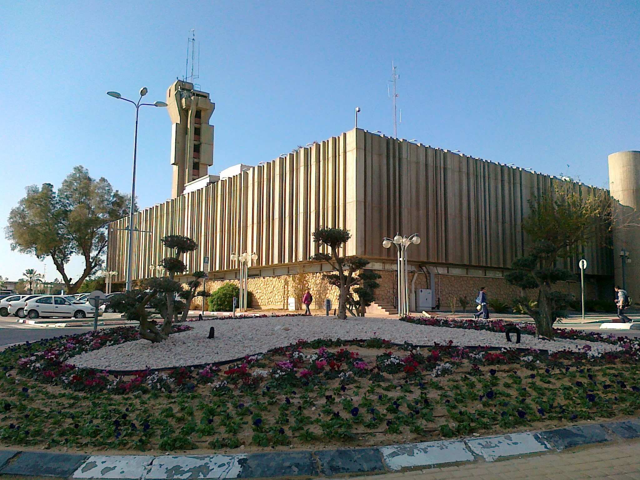 Beersheba City Hall, 2013